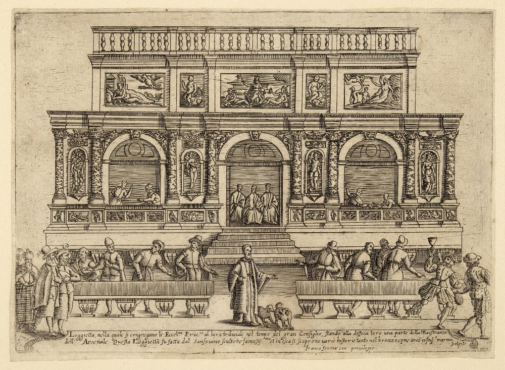 The Loggetta in Saint Mark's Square by Giacomo Franco, 1610, showing the original construction previous to the modifications.